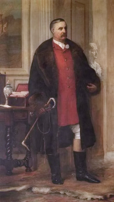 Albert Brassey, Esq. (1844–1914), MA, JP, MFH, MP of Heythrop Park